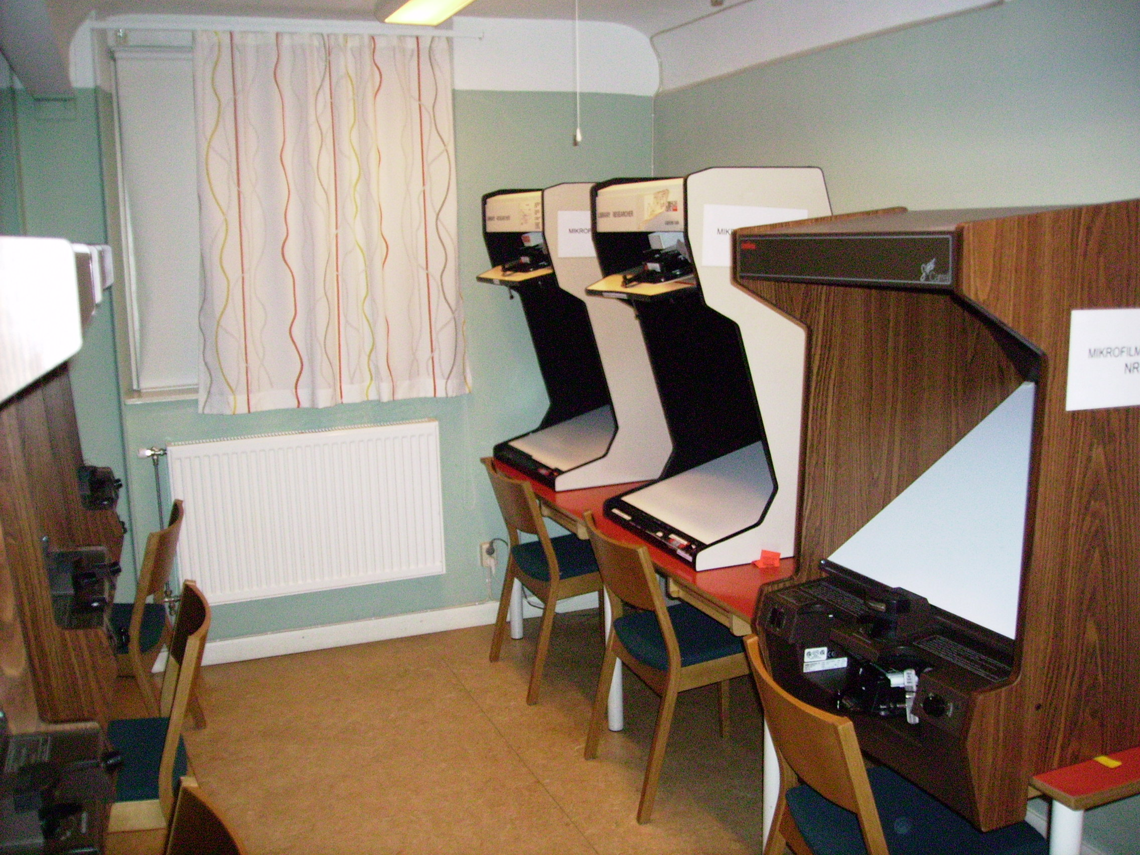 Interior of Kurs- och tidningsbiblioteket in Gothenburg